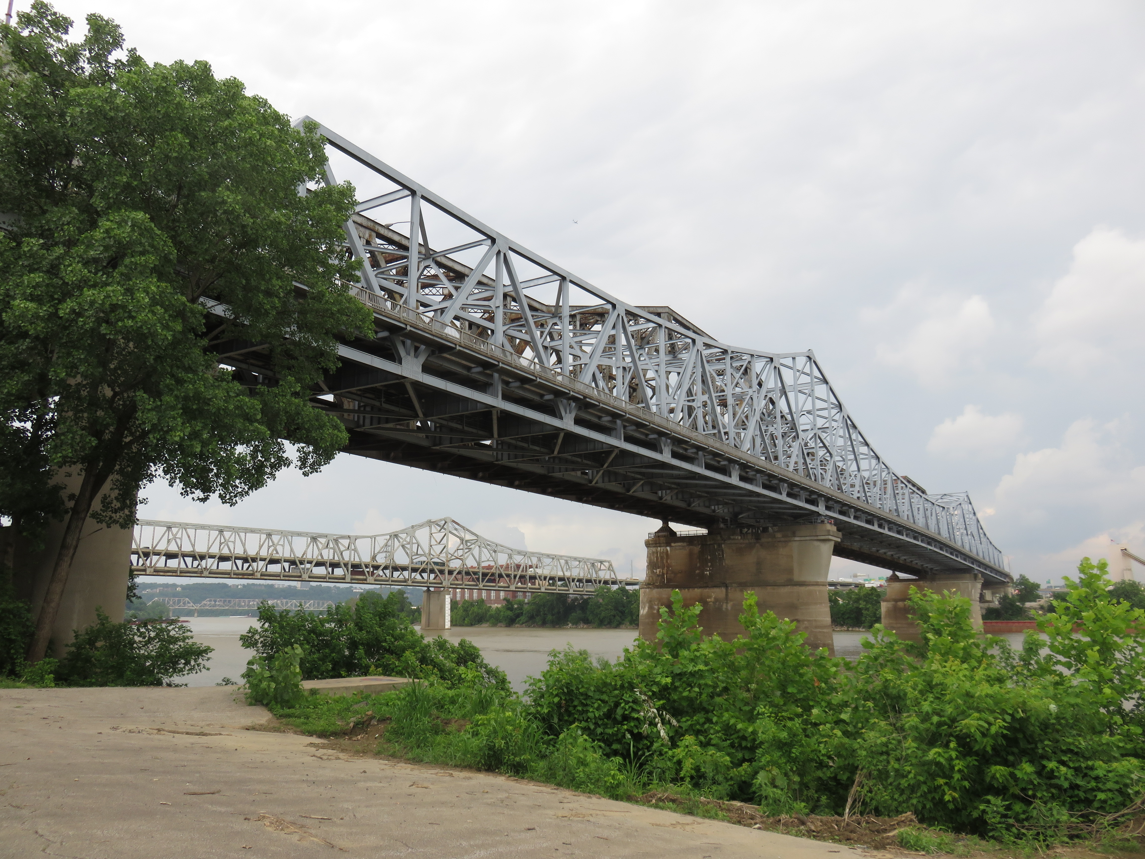 Clay Wade Bailey Bridge over the Ohio River in Cincinnati, Ohio and Covington, Kentucky in 2018